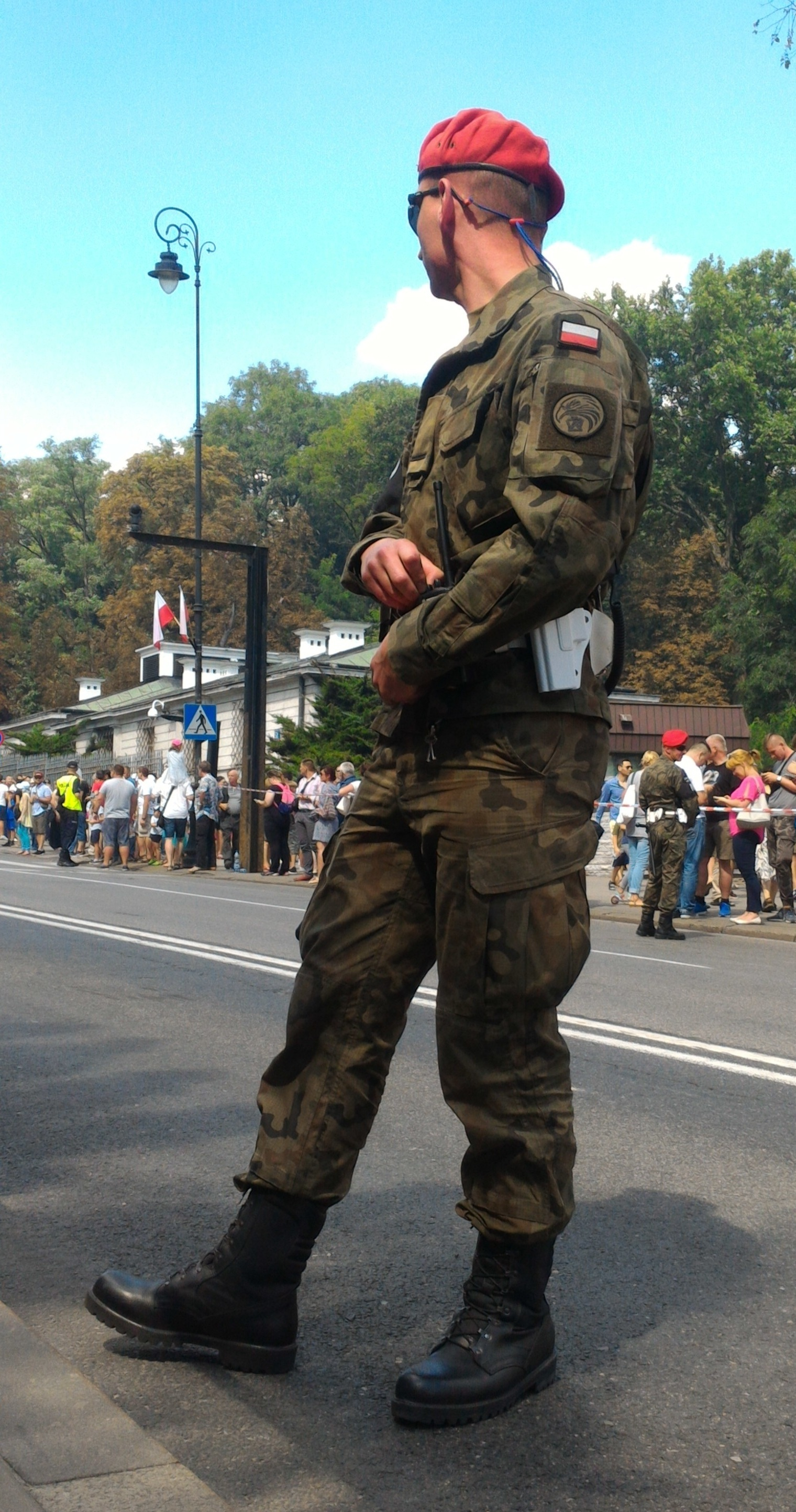 Polish Military Police during Army Parade in Warsaw.